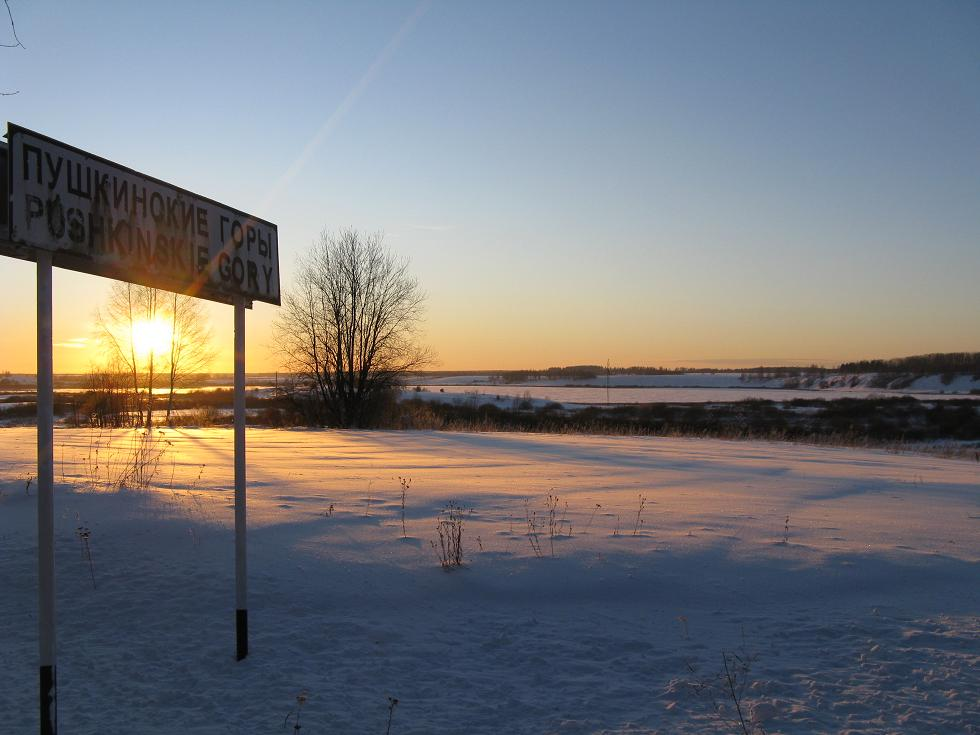 At the winter entrance in PG near Kamenets lake